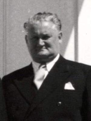 inventarski broj: 1953 020 050